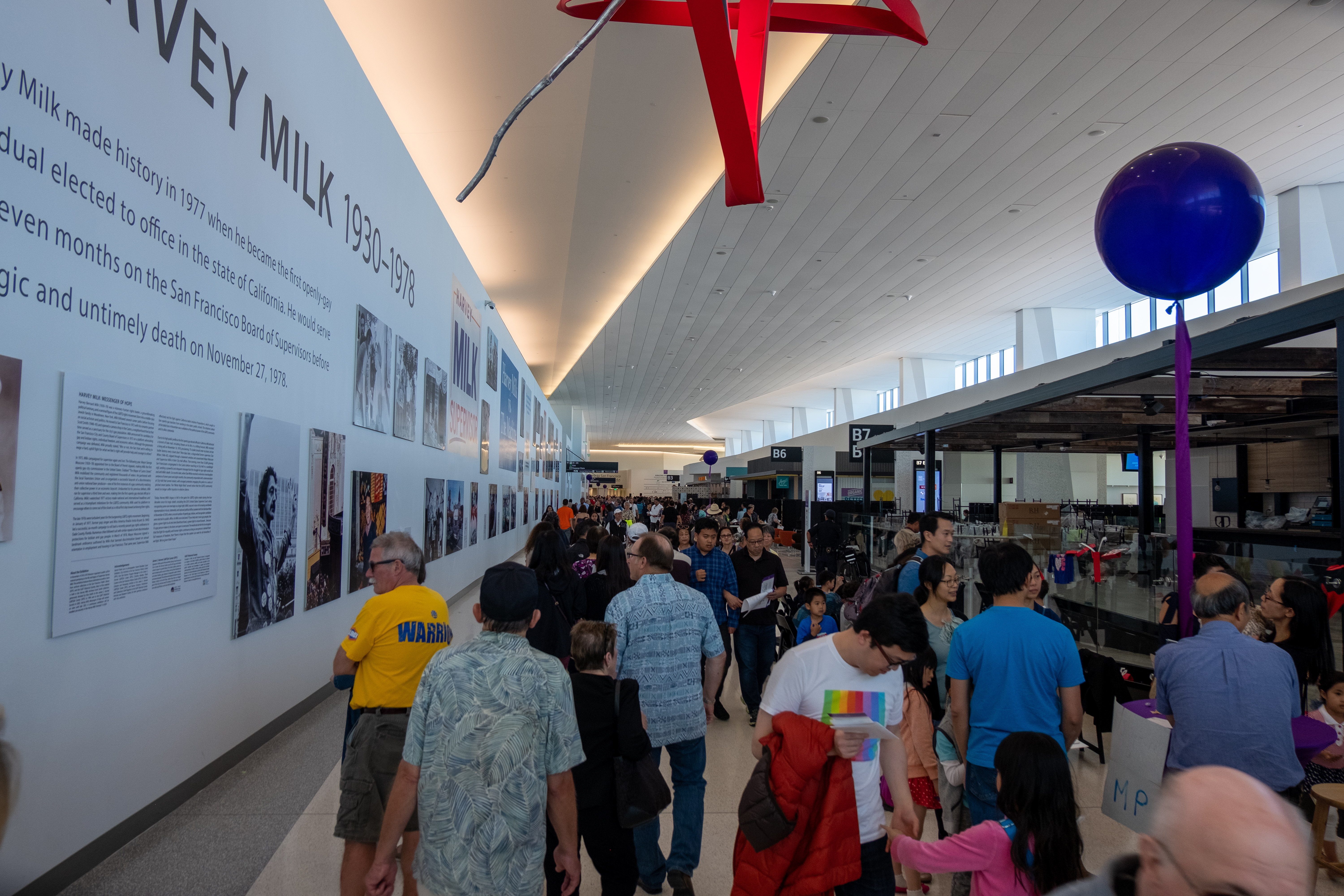 Harvey Milk Terminal 1 Community Day on Saturday 20 July 2019